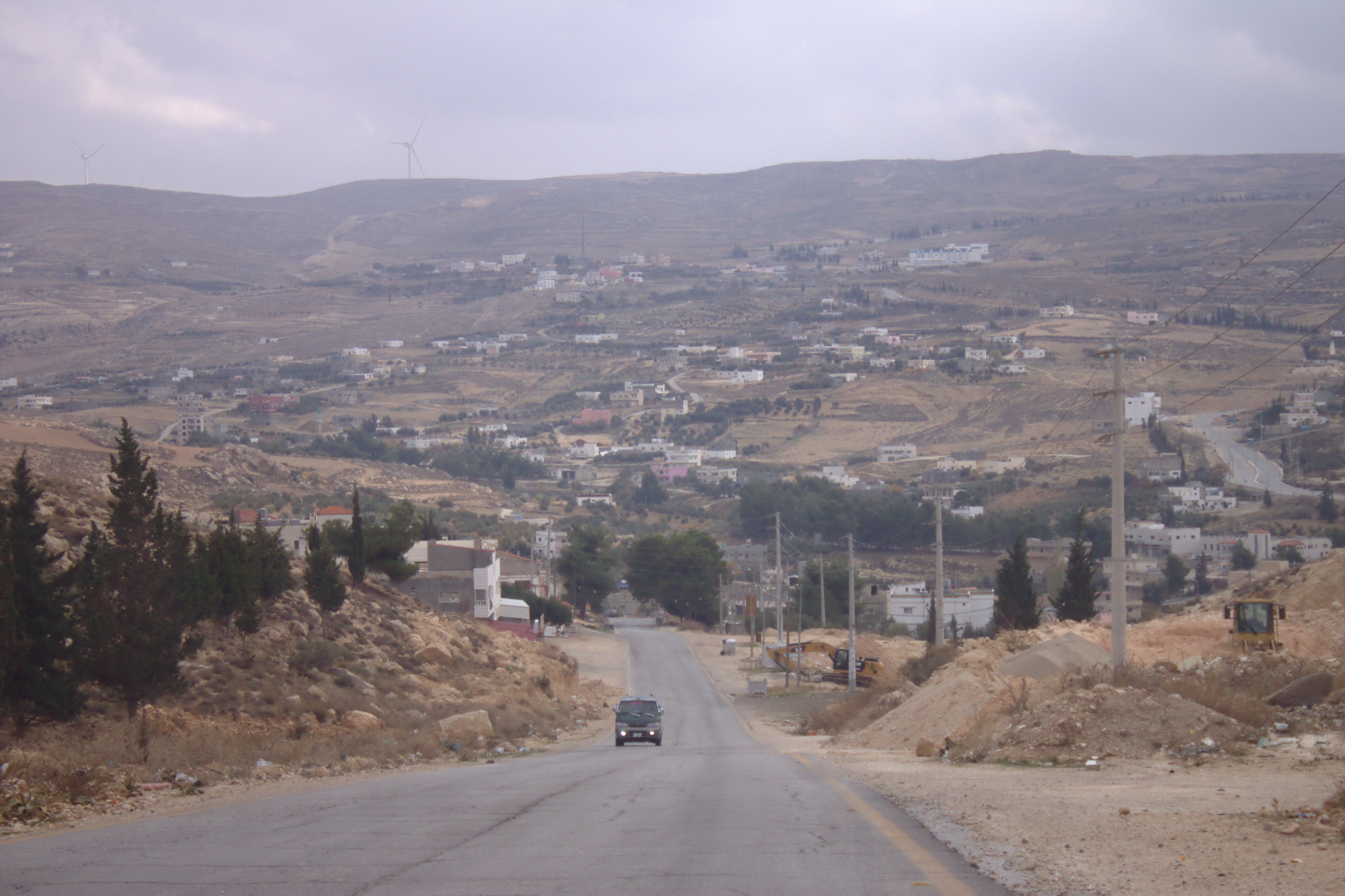 Al-Ayn Al-Baida - Tafila, Jordan